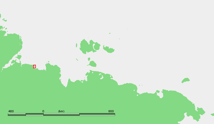 color map